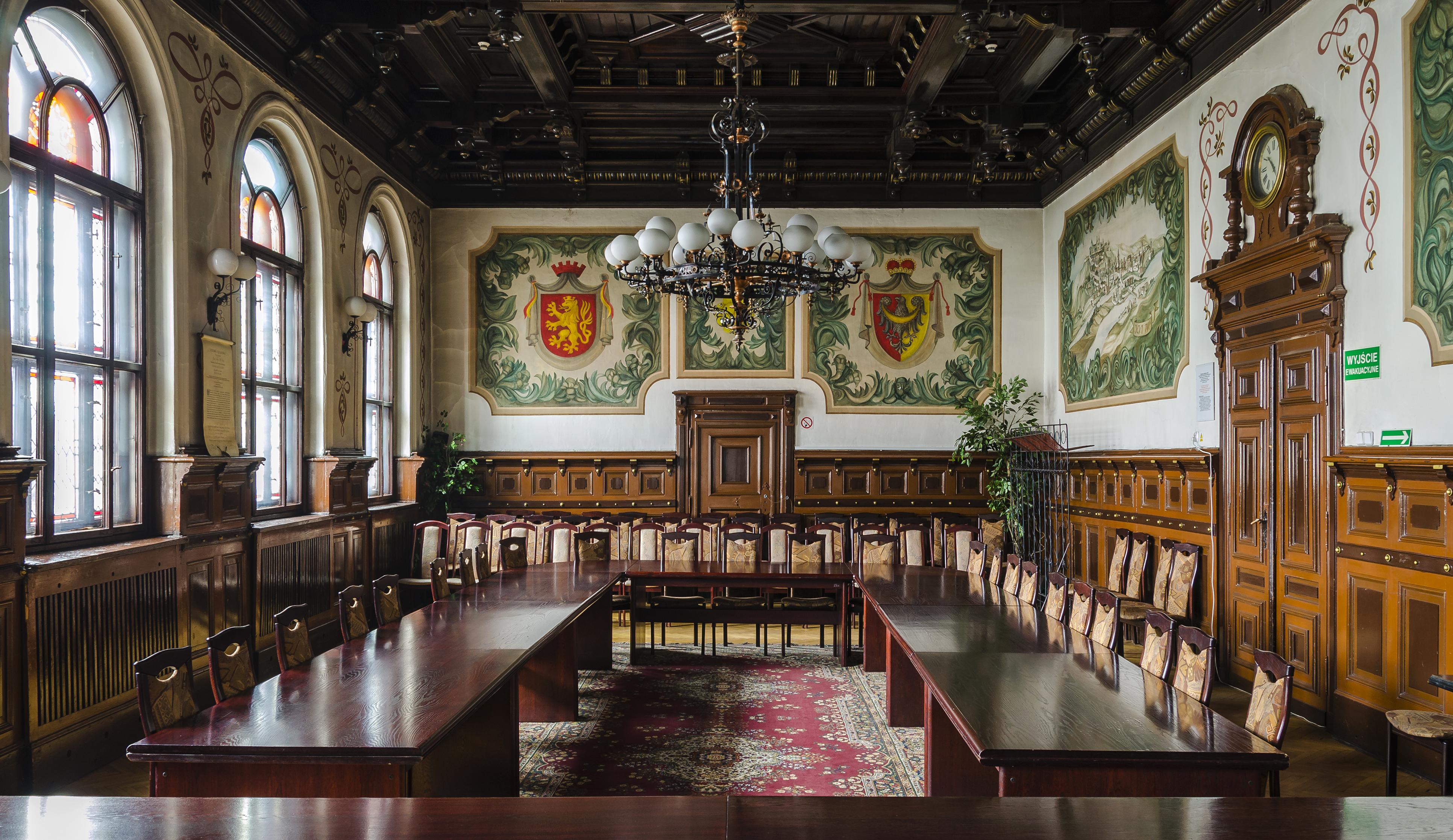 Town hall in Kłodzko Ta fotografia przedstawia zabytek wpisany do rejestru zabytków pod numerem ID 592699